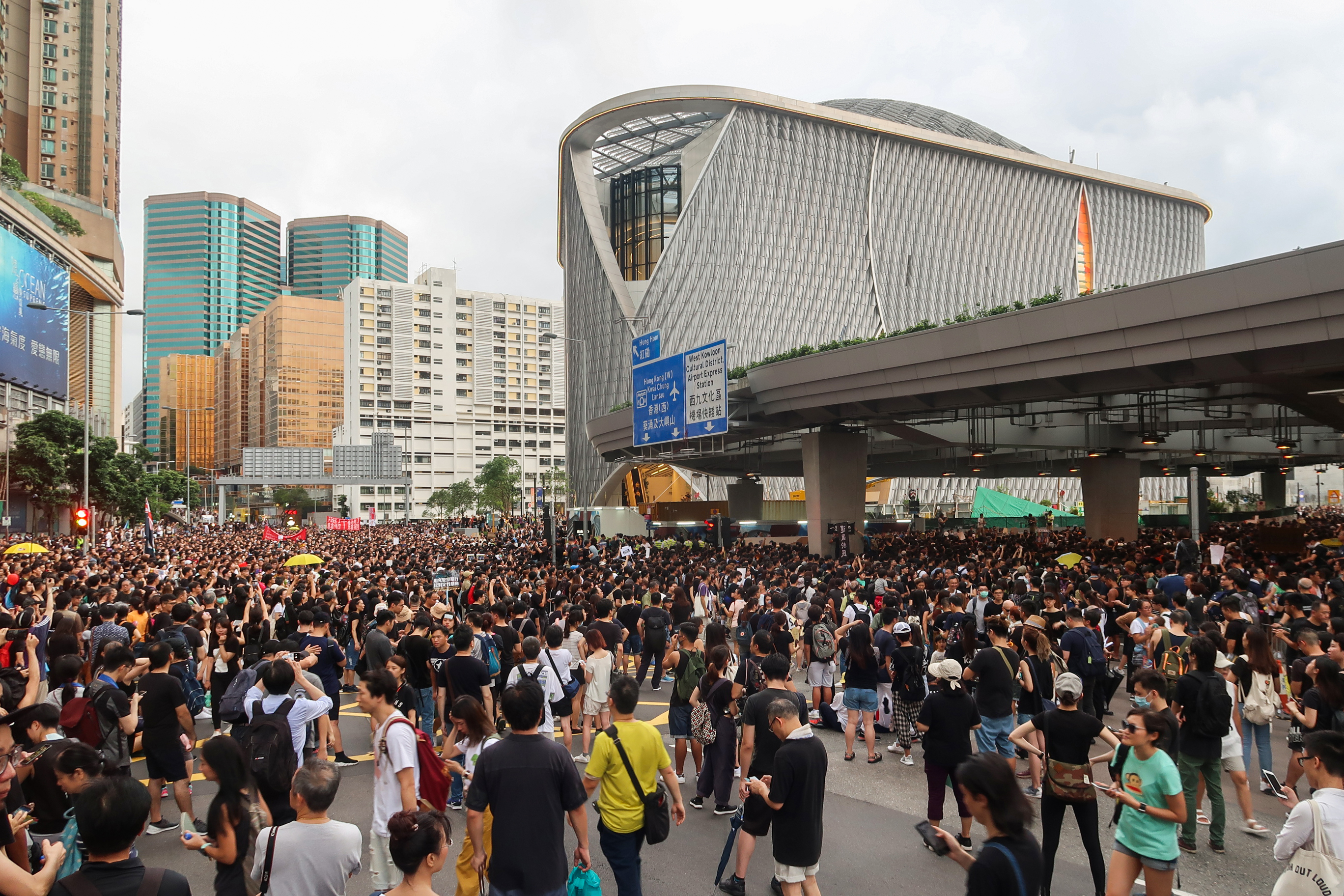 Protesters in Canton Road